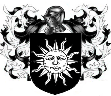 Coat of arms of of house Karstark in A Song of Ice and Fire by George R. R. Martin